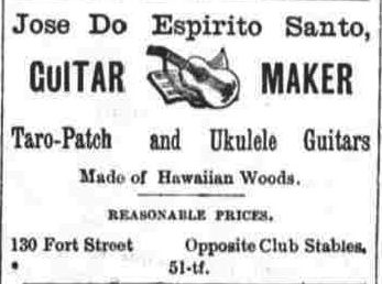 An ad for one of the inventors of the ukulele. The first group of Portuguese immigrants to Hawaii invented the ukulele after they arrived in August 1879 via the SS Ravenscrag. That ship included cabinet makers from Madeira Island, who brought the Medeiran machete. In their new country, ukulele inventors Manuel Nunes, José do Espírito Santo, and Augusto Dias developed the ukulele, and the Hawaiians adopted it (ukulele means "jumping flea" in Hawaiian). Text: “Jose Do Espirito Santo, Guitar Maker. Taro-patch and ukulele guitars. Made of Hawaiian woods. Reasonable prices.” From the University of Hawaii at Manoa Library: Hawaii Digital Newspaper Project